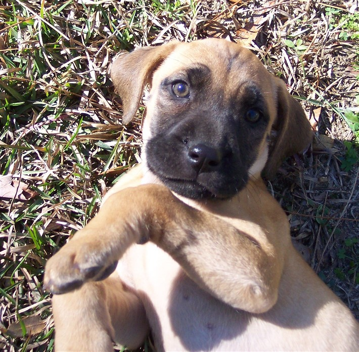 Mrs. Julie Murphy. I am the source of the photo. Red Blackmouth Cur puppy taken in Feb 2006, in Mobile, Alabama, of puppy playing in the grass. The puppy was mine at the time. Please credit Mrs. Julie Murphy, Murphy's Blackmouth of the South as the author.